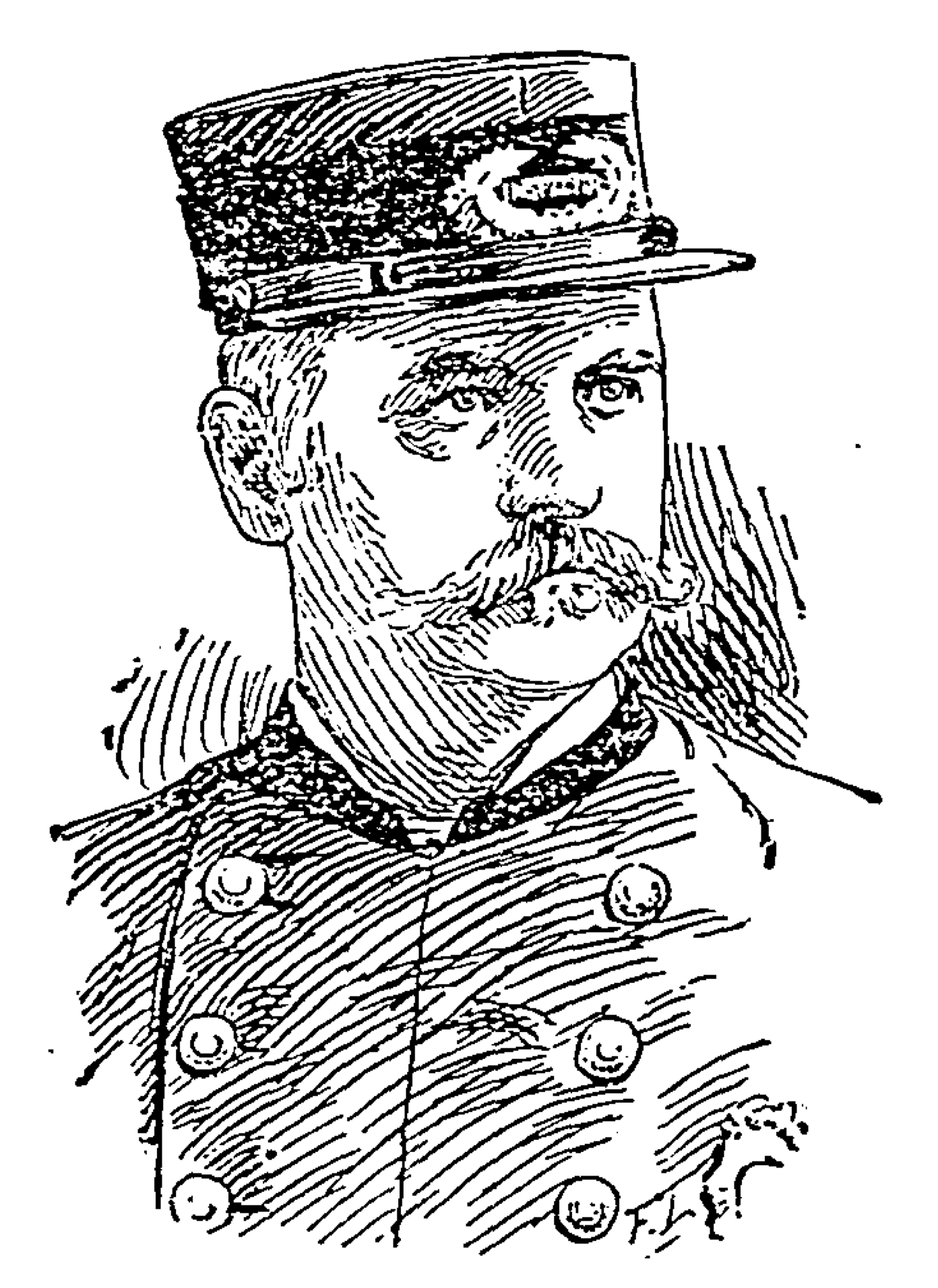 Engraving of former NYPD Inspector Alexander "Clubber" Williams